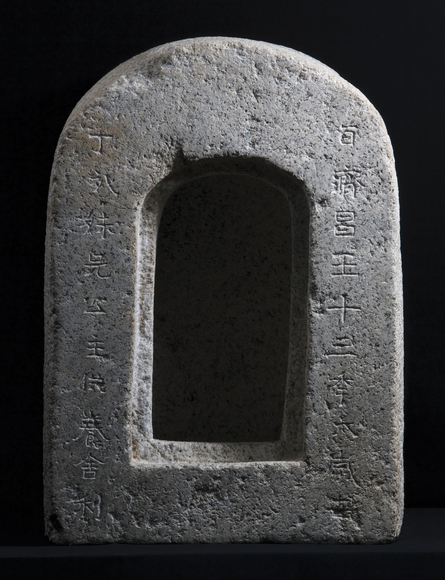 Stone Reliquary from Temple Site in Neungsan-ri, Buyeo, National Treasure of Republic of Korea No. 288